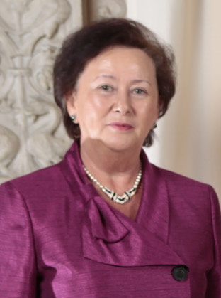 President Barack Obama and First Lady Michelle Obama pose for a photo during a reception at the Metropolitan Museum in New York with Sali Berisha, Prime Minister of Albania, and his wife, H.E. Dr. Liri Berisha.